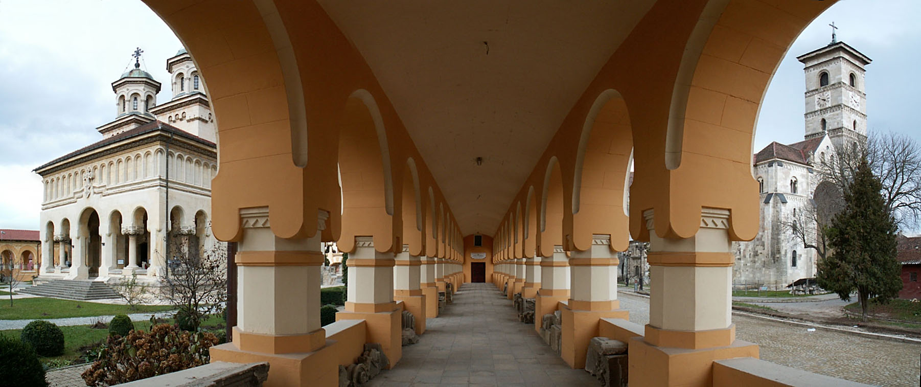 Alba Iulia Roman Catholic and Orthodox Cathedrals, Alba Iulia, Romania